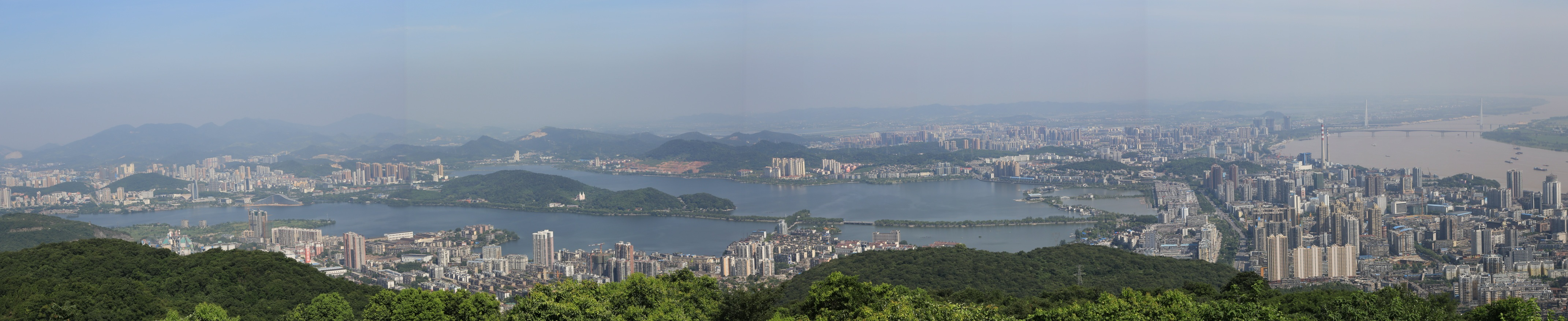 Panorama of the city of Huangshi, Hubei, China. Taken from Moon Mountain. Cihu Lake on the left, city of Huangshi in the middle, Yangtze River on the right.